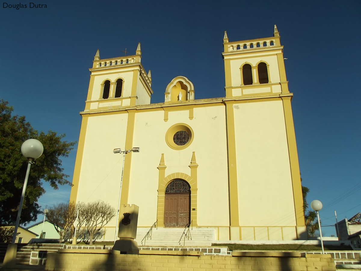 First Church Our Lady of the Conception of Piratini